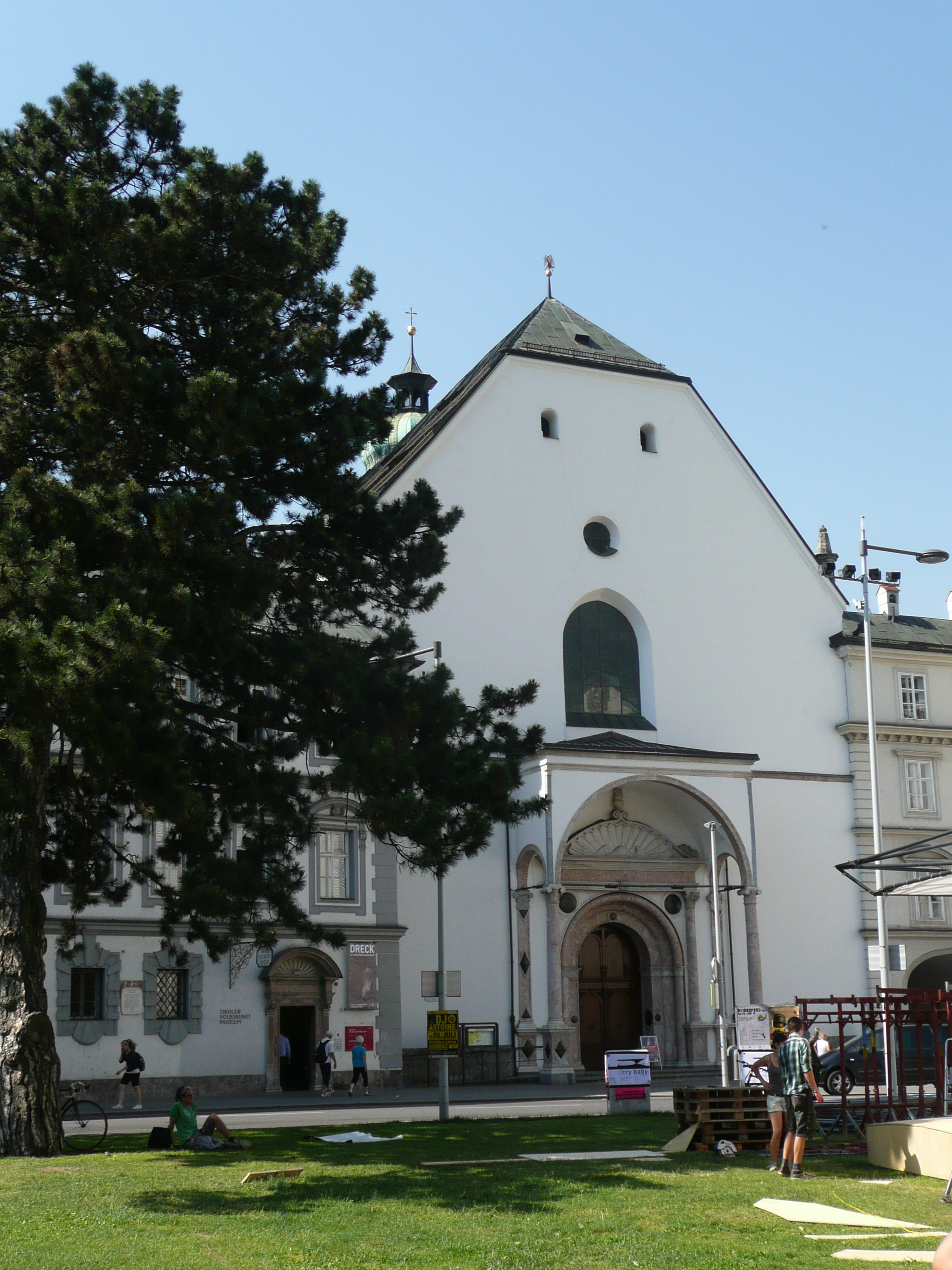 The court church in Innsbruck